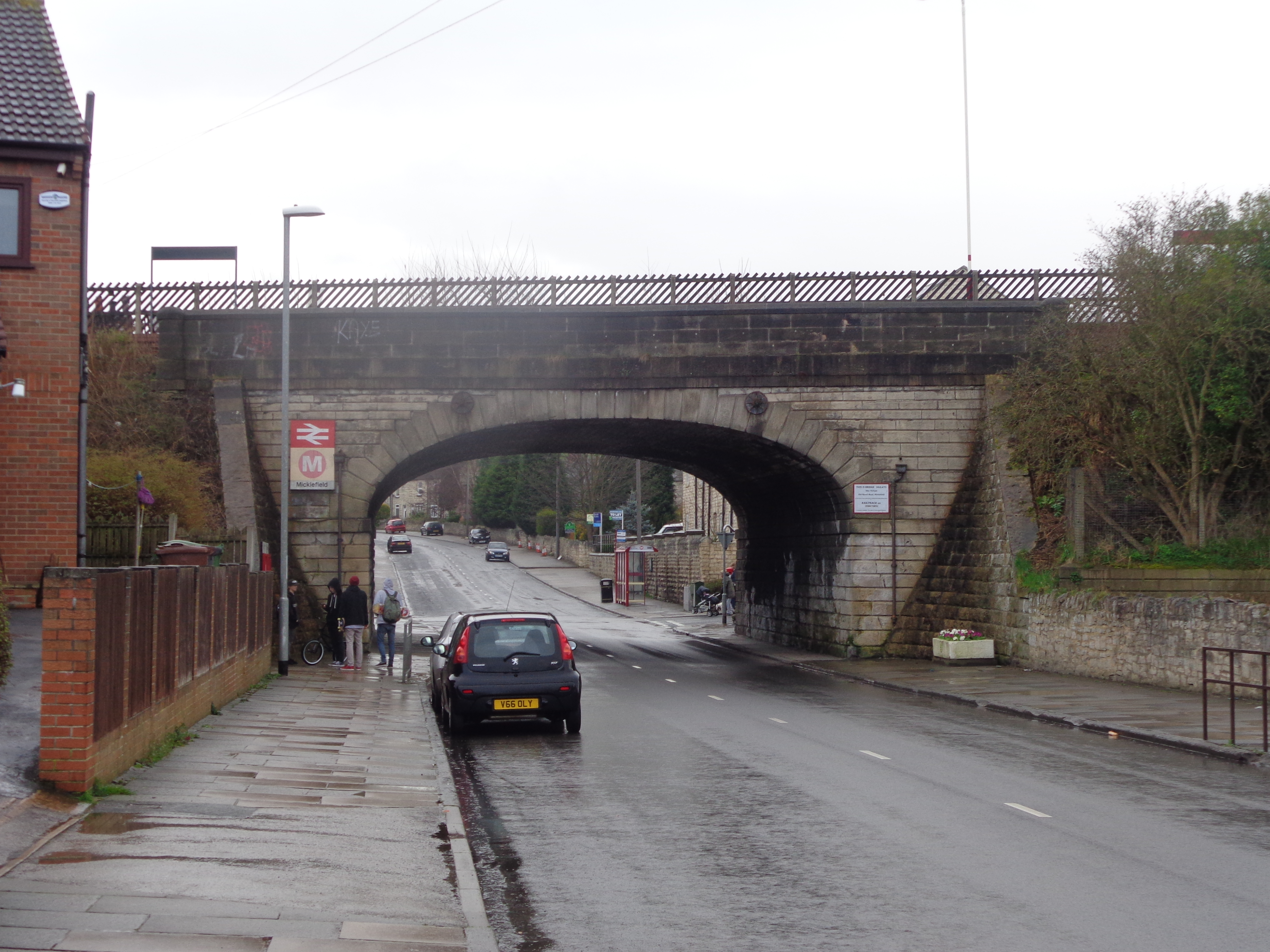 Micklefield railway station (the station being on the viaduct), Micklefield, Leeds, West Yorkshire. Taken on the afternoon of Saturday the 22nd of March 2014.